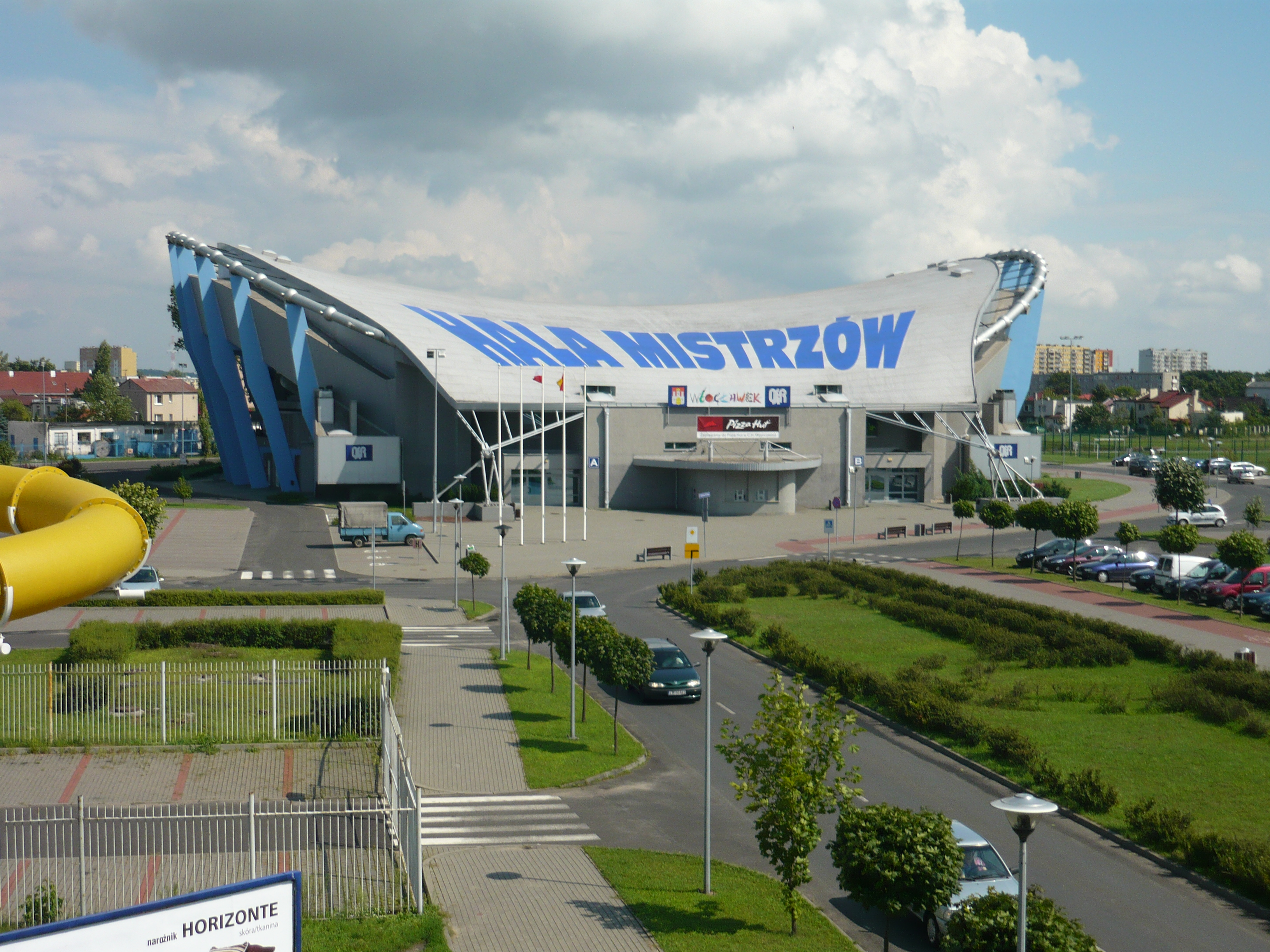 Hall of the Masters in Włocławek.